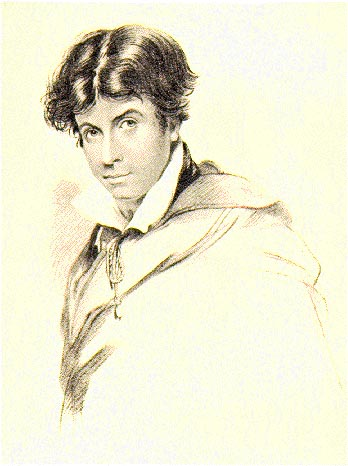 Leigh Hunt (1784-1859), an English essayist and poet